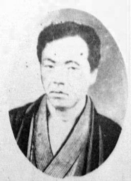 a Japanese man 江藤新平 (Shinpei Eto)